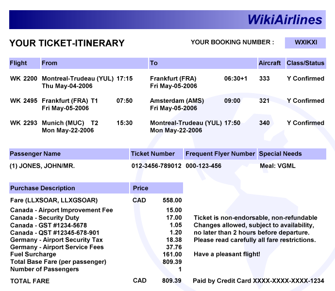 Sample itinerary for an Electronic ticket for an open jaw from Montreal to Amsterdam, and returning from Munich. Created by Sergio Ortega on September 11, 2006, based on real standards.